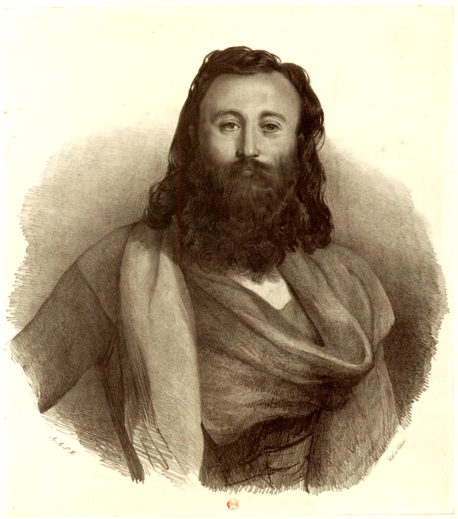 Prosper Enfantin (1796–1864), French social reformer, one of the founders of Saint-Simonianism. Impr. Frault Jeune r. S. And. des Arts, 37. Paris